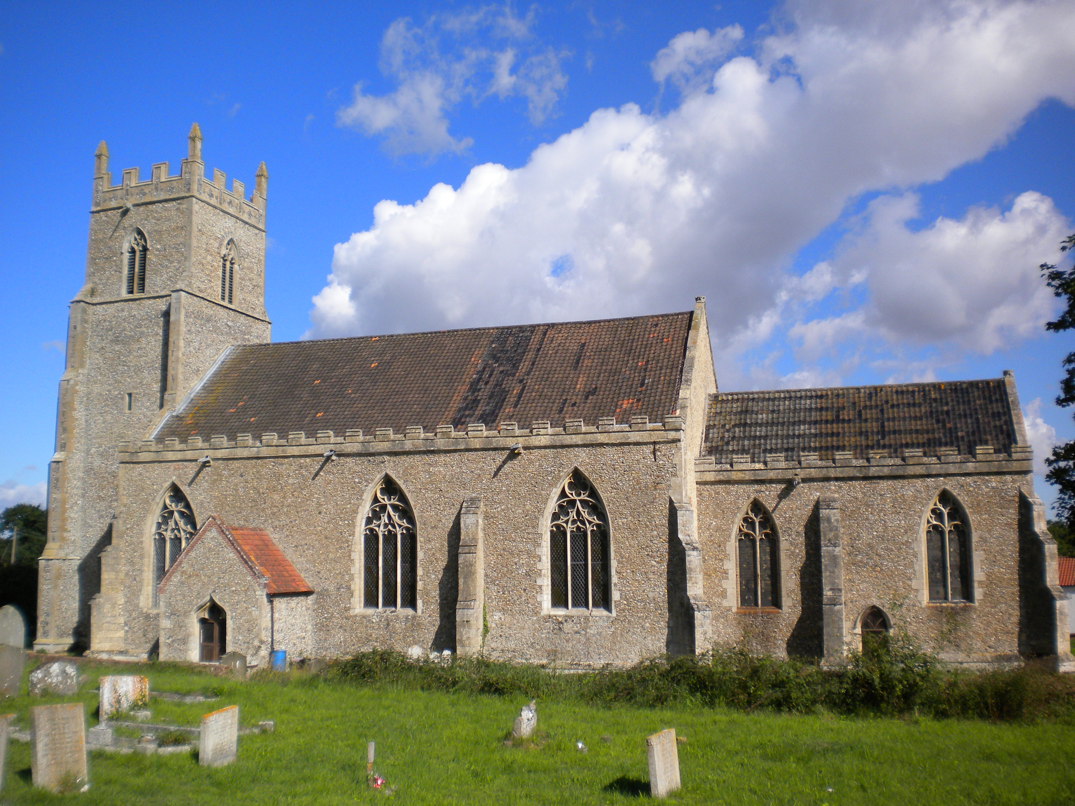 St Mary's parish church, Elsing, Norfolk, seen from the south